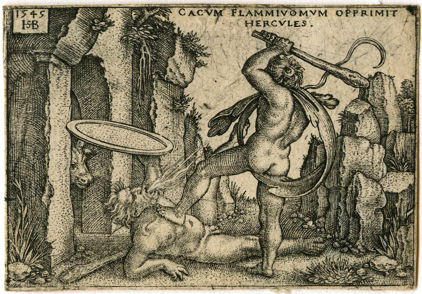 Beham, (Hans) Sebald (1500-1550): Hercules killing Cacus at his cave, from The Labours of Hercules (1542-1548). Engraving, 1545. B.104, P.102. 2 X 2 7/8 inches, possibly i/iv. A very good, strong impression, the area around Cacus somewhat dryer than the rest of the image (possibly characteristic of the print), with thread margins.